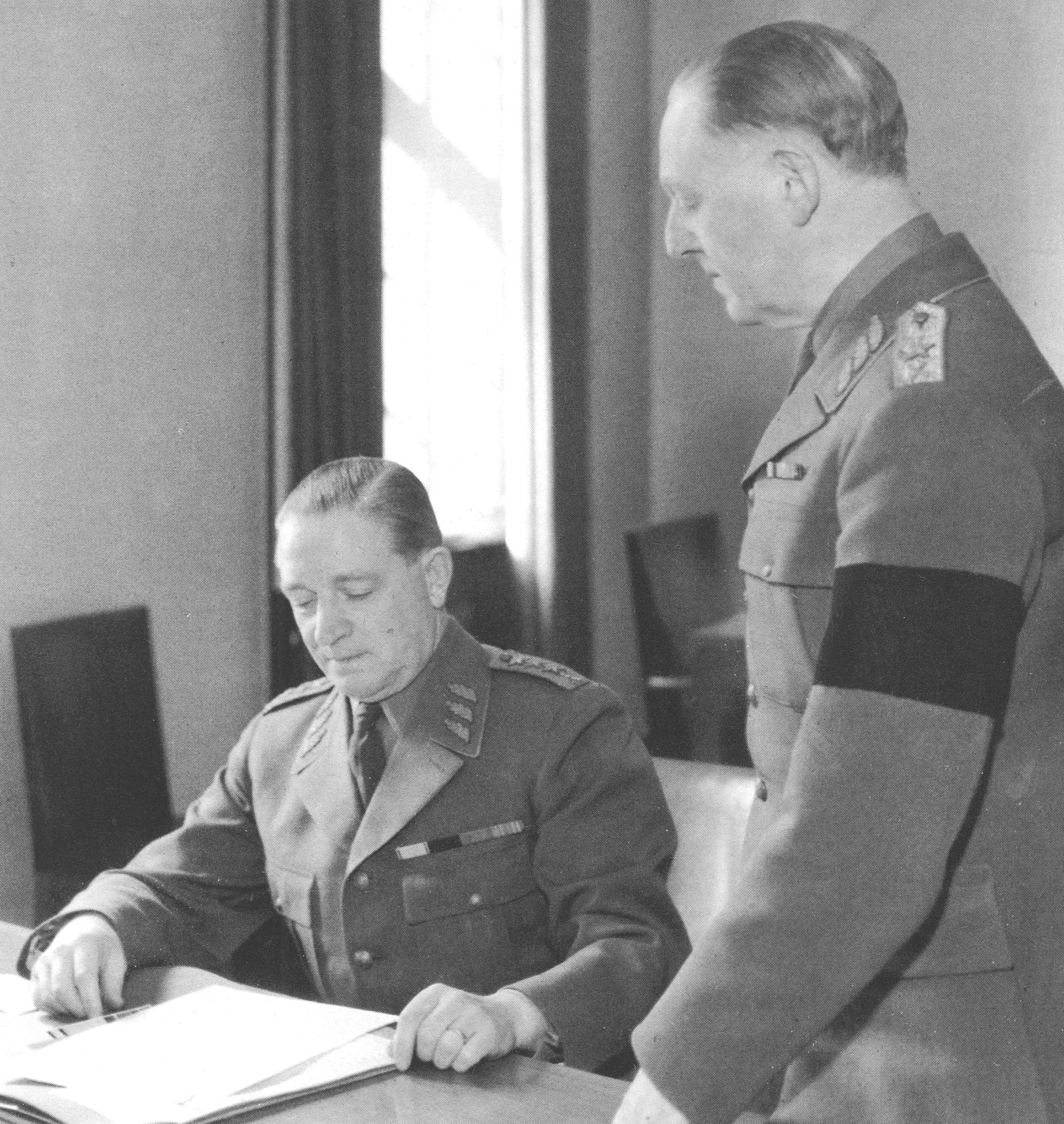 Supreme Commander of the Swedish Armed Forces Helge Jung and chief of staff Carl August Ehrensvärd. Ehrensvärd is wearing a mourning band, most likely in memory of his late wife, countess Gisela Bassewitz (1895-1946).